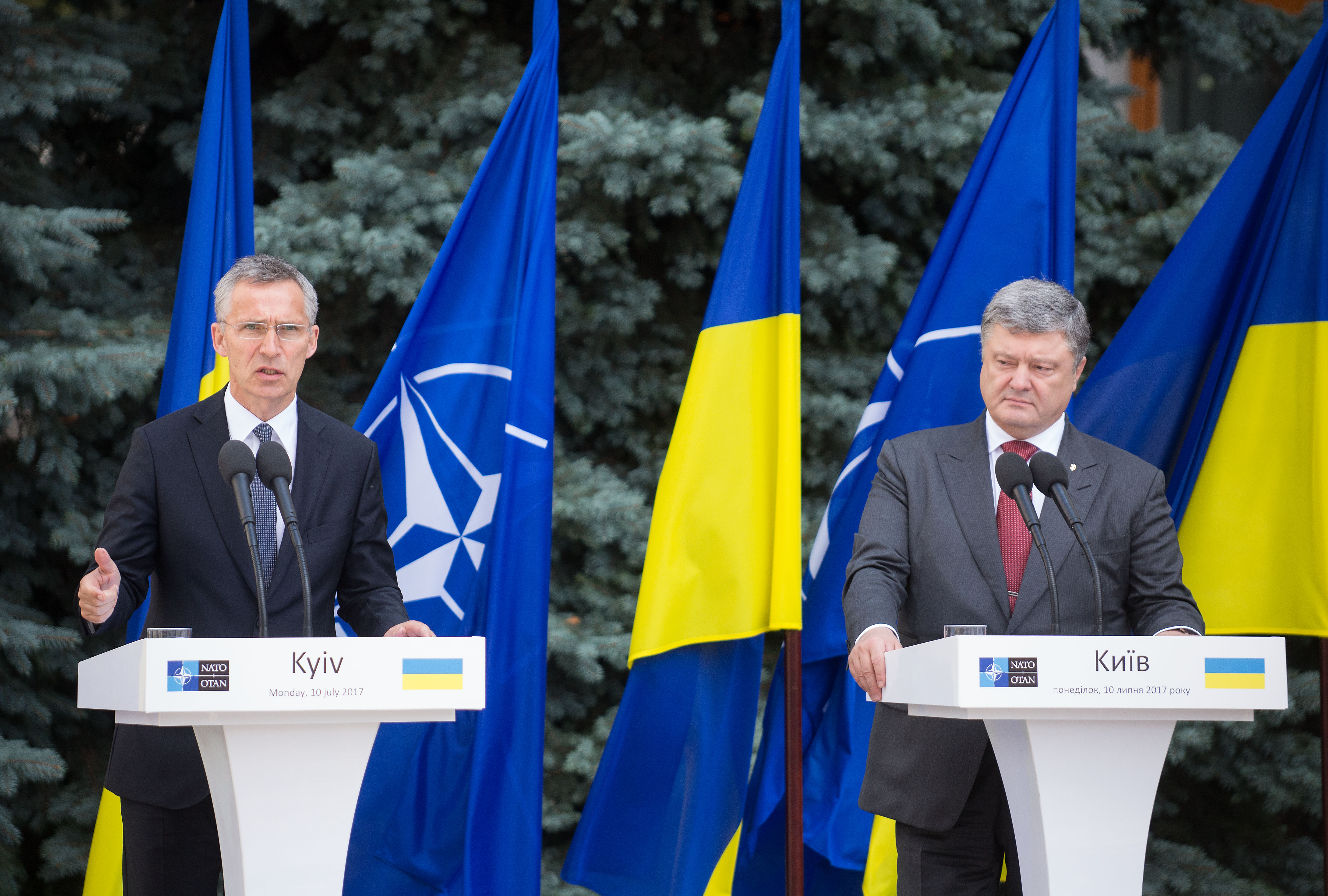 Ukraine – NATO Commission chaired by Petro Poroshenko